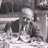 David Seymour, from a family photo taken by a friend of Will Lang Jr.